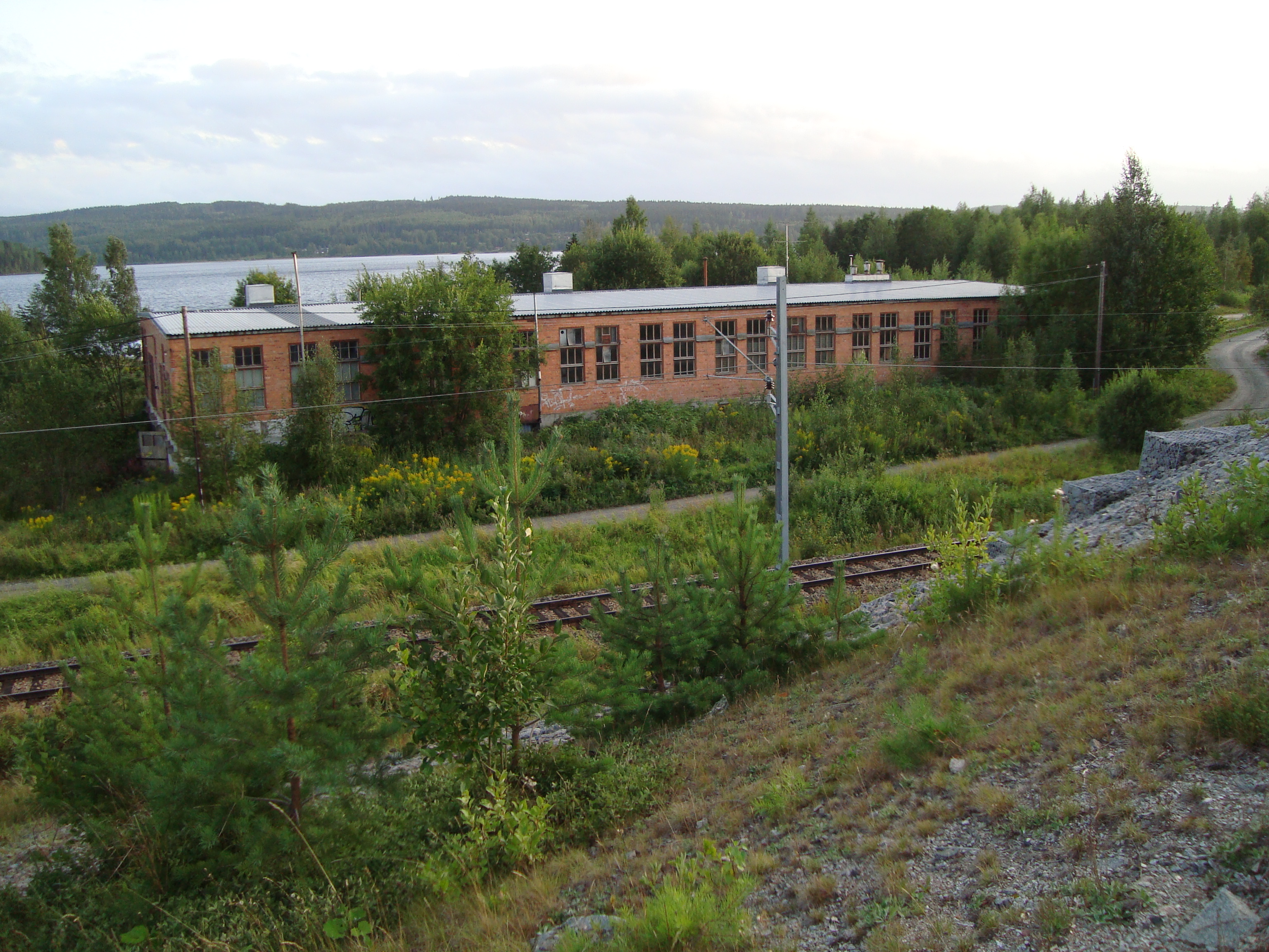 Old sawmill of Vad, Smedjebacken Municipality, Sweden